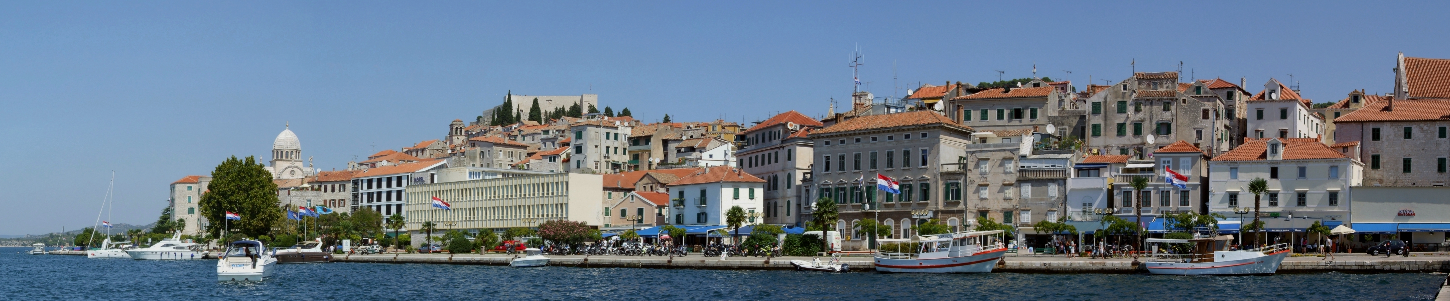 Harbour in Šibenik